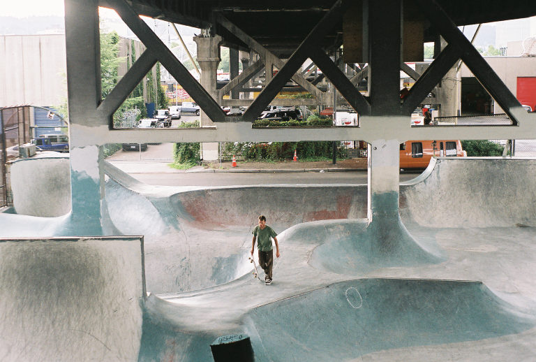 The Portland Skate Park under the Burnside Bridge.